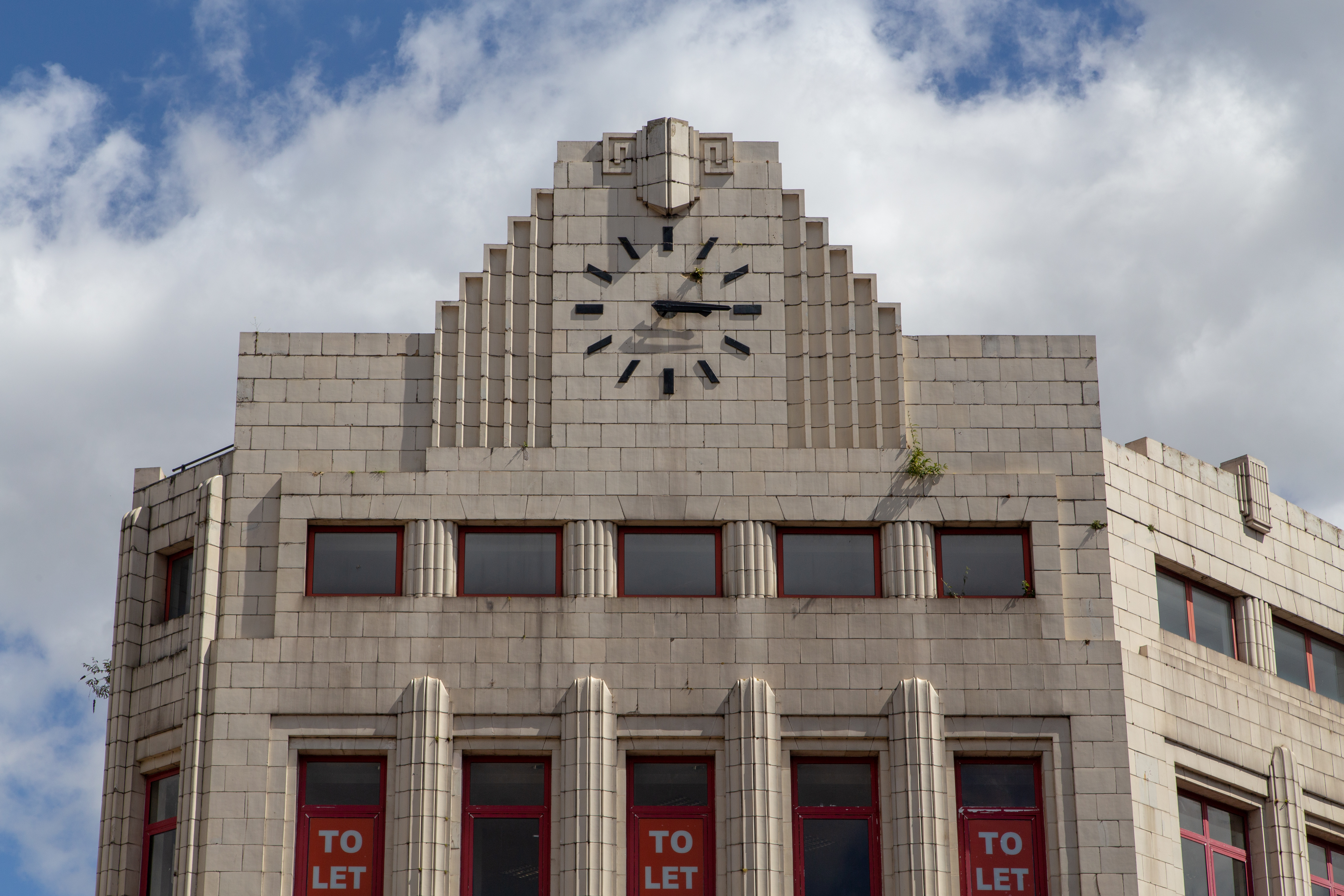 Sinclair's, Belfast